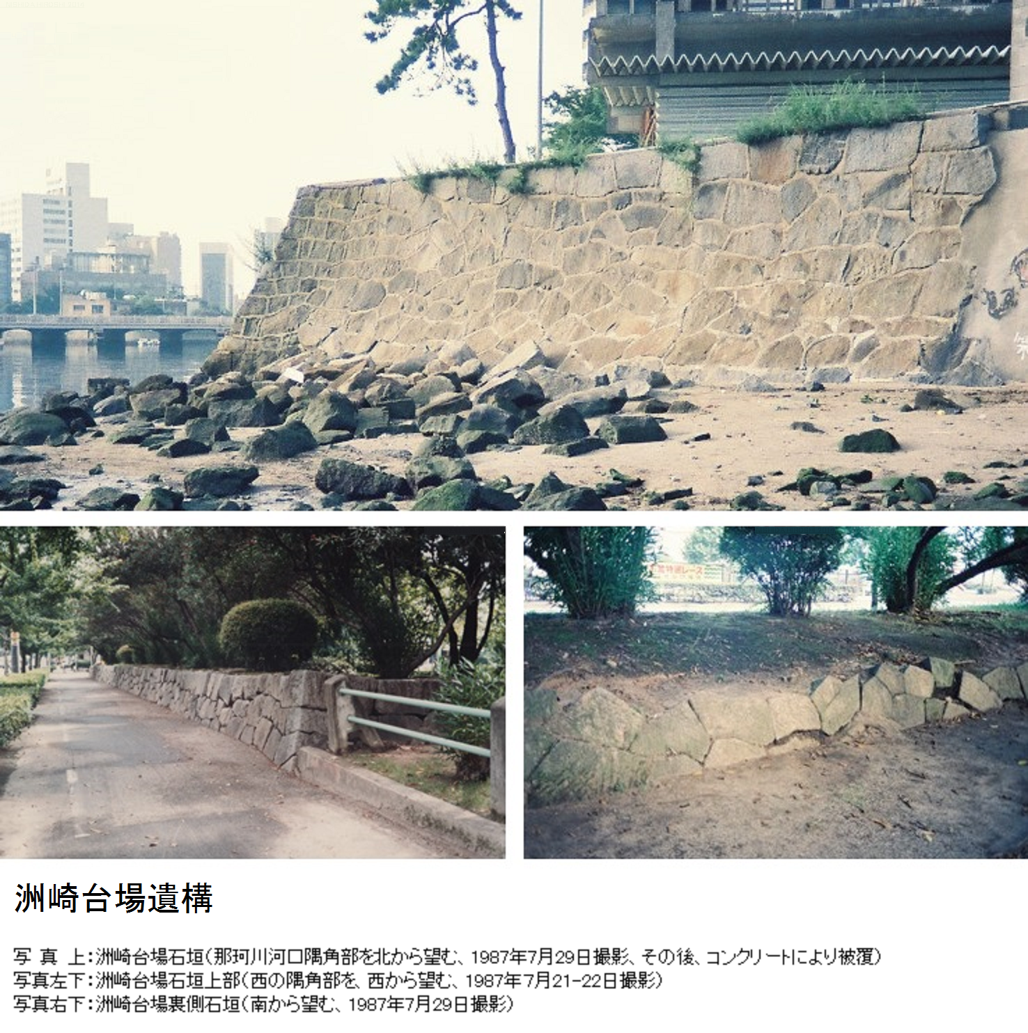 Suzaki Fort remains, Tenjin, Chuo-ku, Fukuoka-shi, Japan